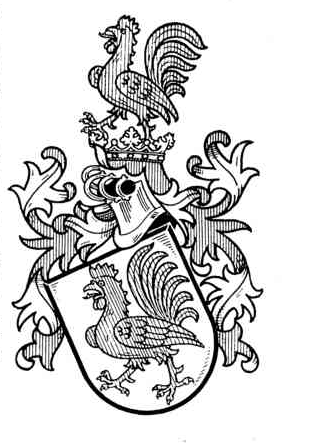 coat of arms of the family von Hahn in Ösel